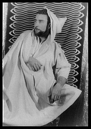 Title: Portrait of Brion Gysin Abstract/medium: 1 photographic print : gelatin silver.